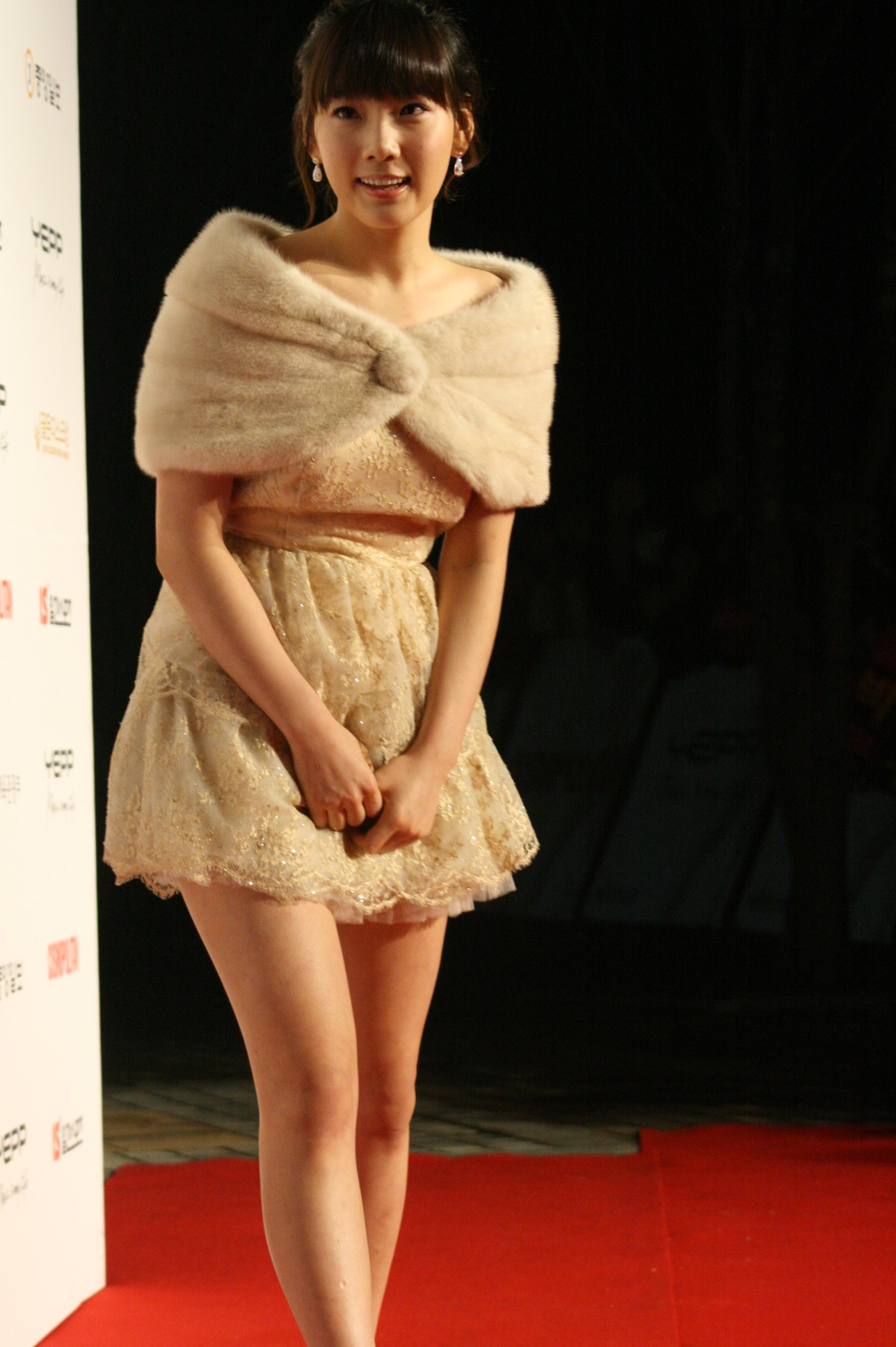 TaeYeon @ Golden Disk Awards - Red Carpet [081210]